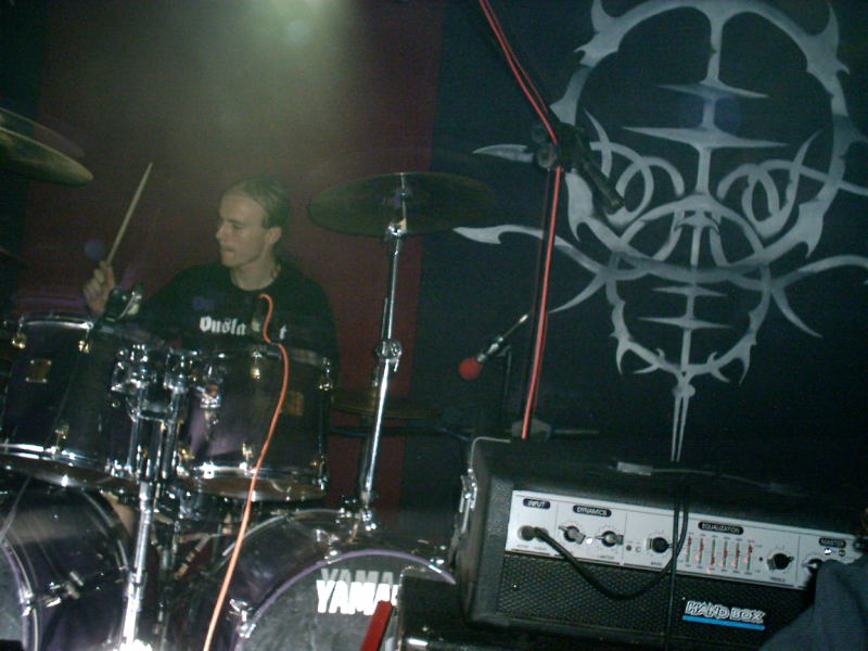 8.06.2004, Rzeszów, Rejs, Empire Invasion Tour 2004, Dies Irae band - Witold "Vitek" Kiełtyka